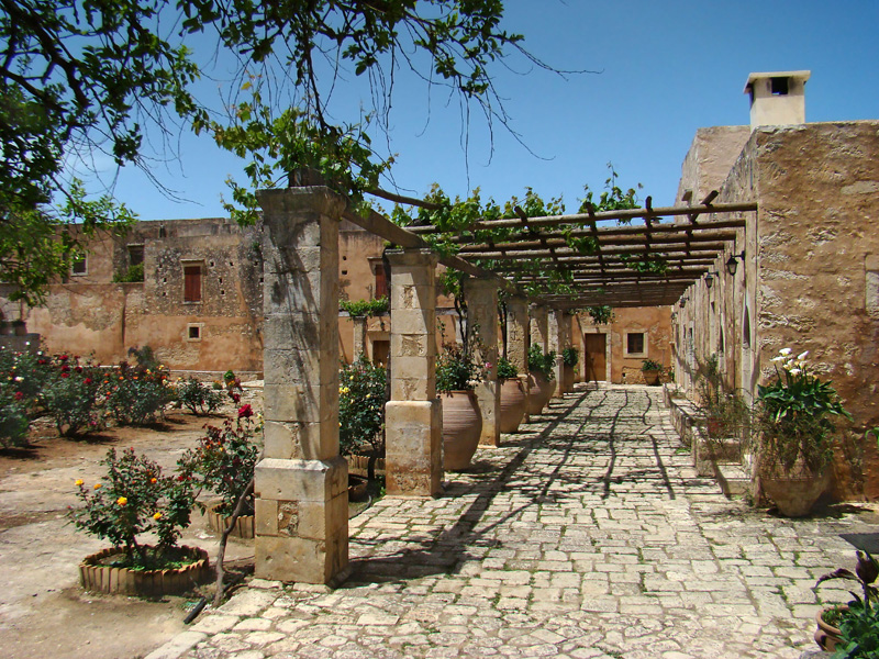 Arkadi Monastery, Crete, Greece.